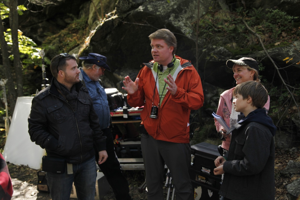 Director Richard Boddington (centre), directing Against The Wild.